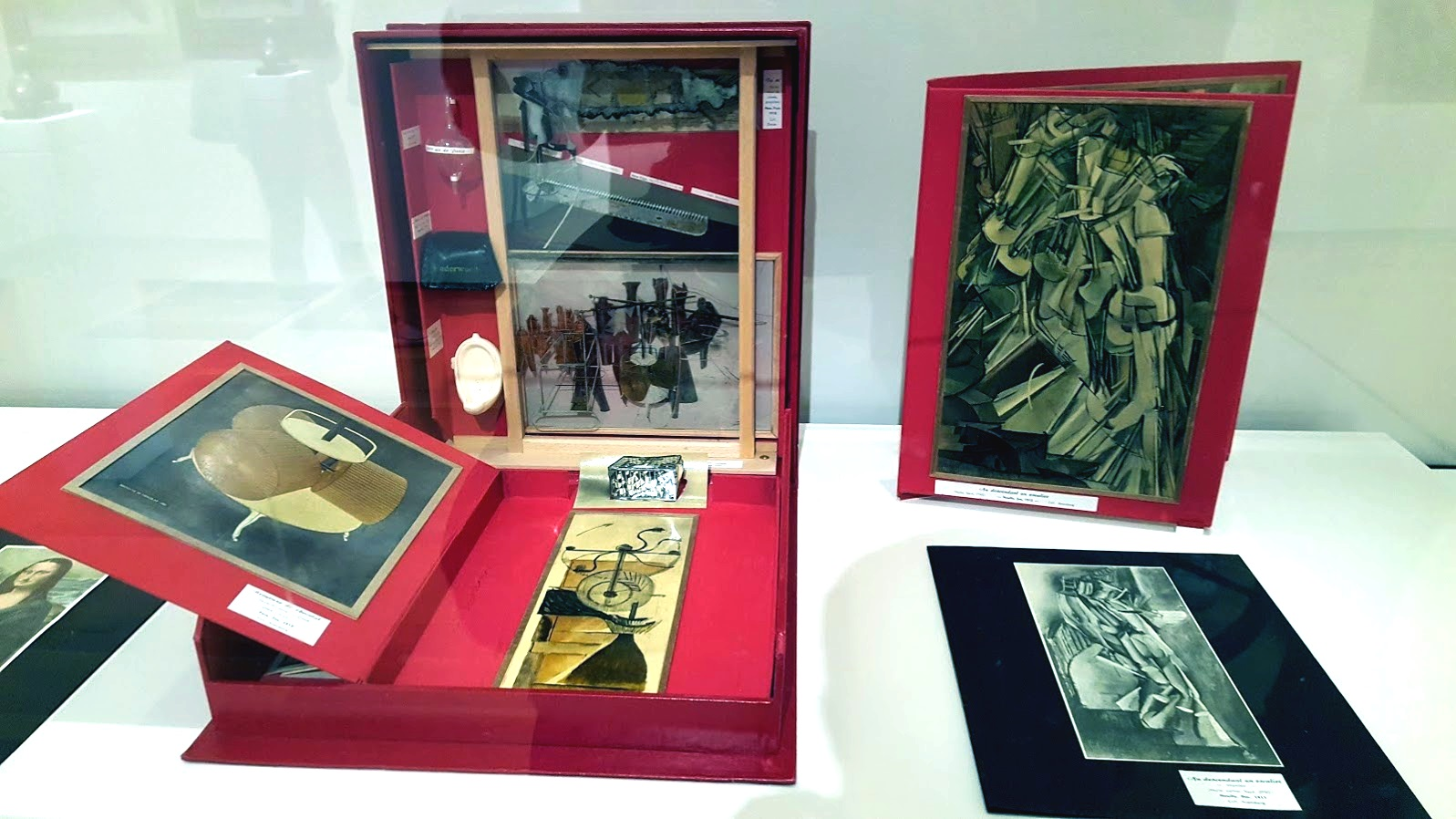 "Boîte-en-valise" (or "Museum in a Box") by Marcel Duchamp. At the Cleveland Museum of Art in Cleveland, Ohio. Between 1935 and 1940, Duchamp he created 20 of these boxes, which contained 69 reproductions of his work. Each "museum" came with a brown leather carrying case. Each box contains a standing, framed version of "Nude Descending a Staircase" and a few other works, a swing-out "gallery" of small prints, and several loose prints mounted on paper. Each box included one original. In this particular box, it is a hand-colored print depicting the upper half of "Virgin (No. 2)" (1938). Six editions of the box appeared in the 1950s and 1960s. These eliminated the carrying case, used different colored fabric, and altered the number of items inside.